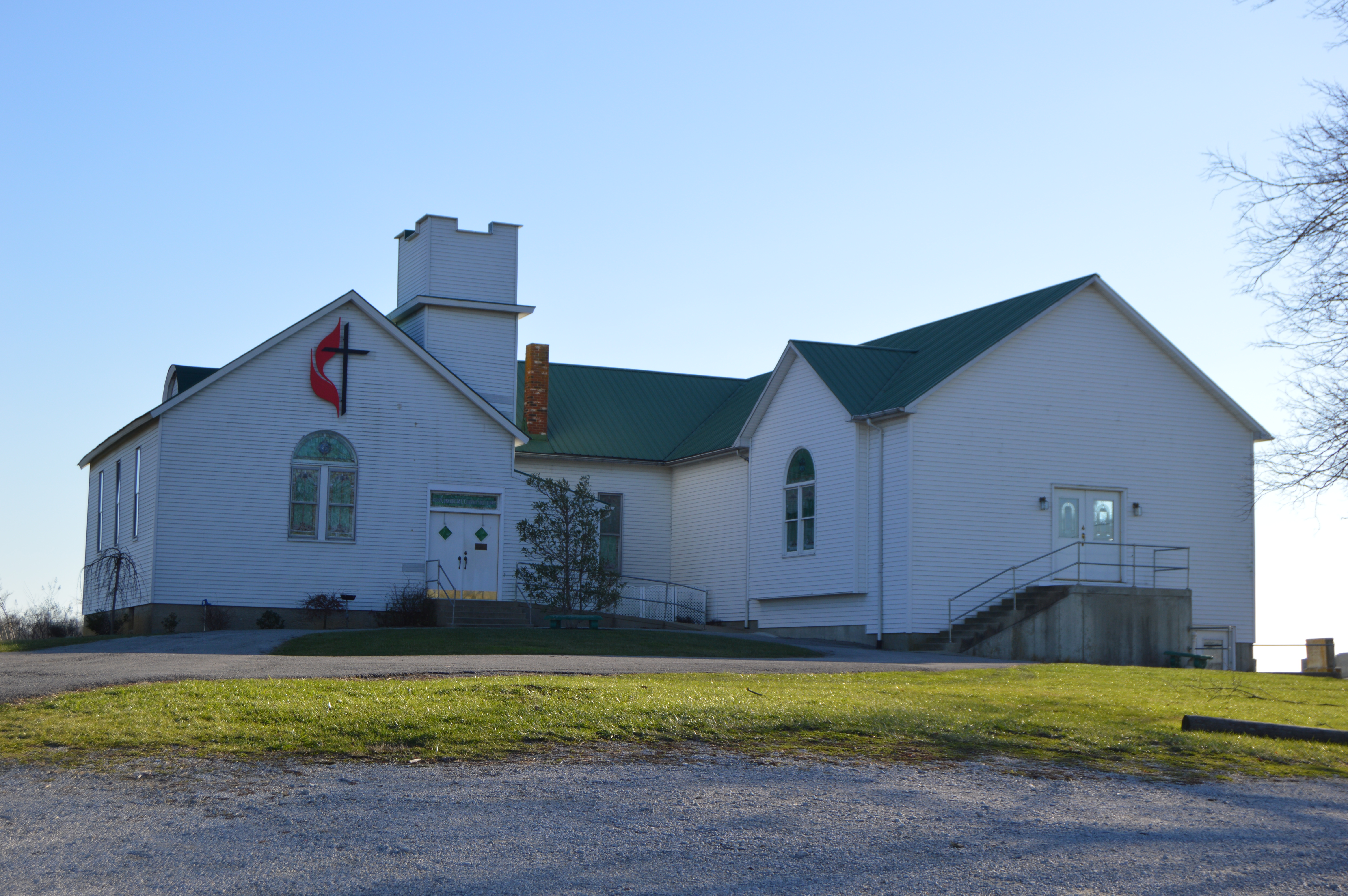 Front of the Concord United Methodist Church, located at 3293 Kentucky Route 1159 at Bladeston, Kentucky, United States.